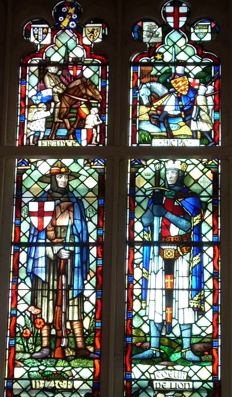 Part of a stained glass window in the Hunter Building at Victoria University of Wellington, New Zealand. Commemorates staff and students who died in World War I.